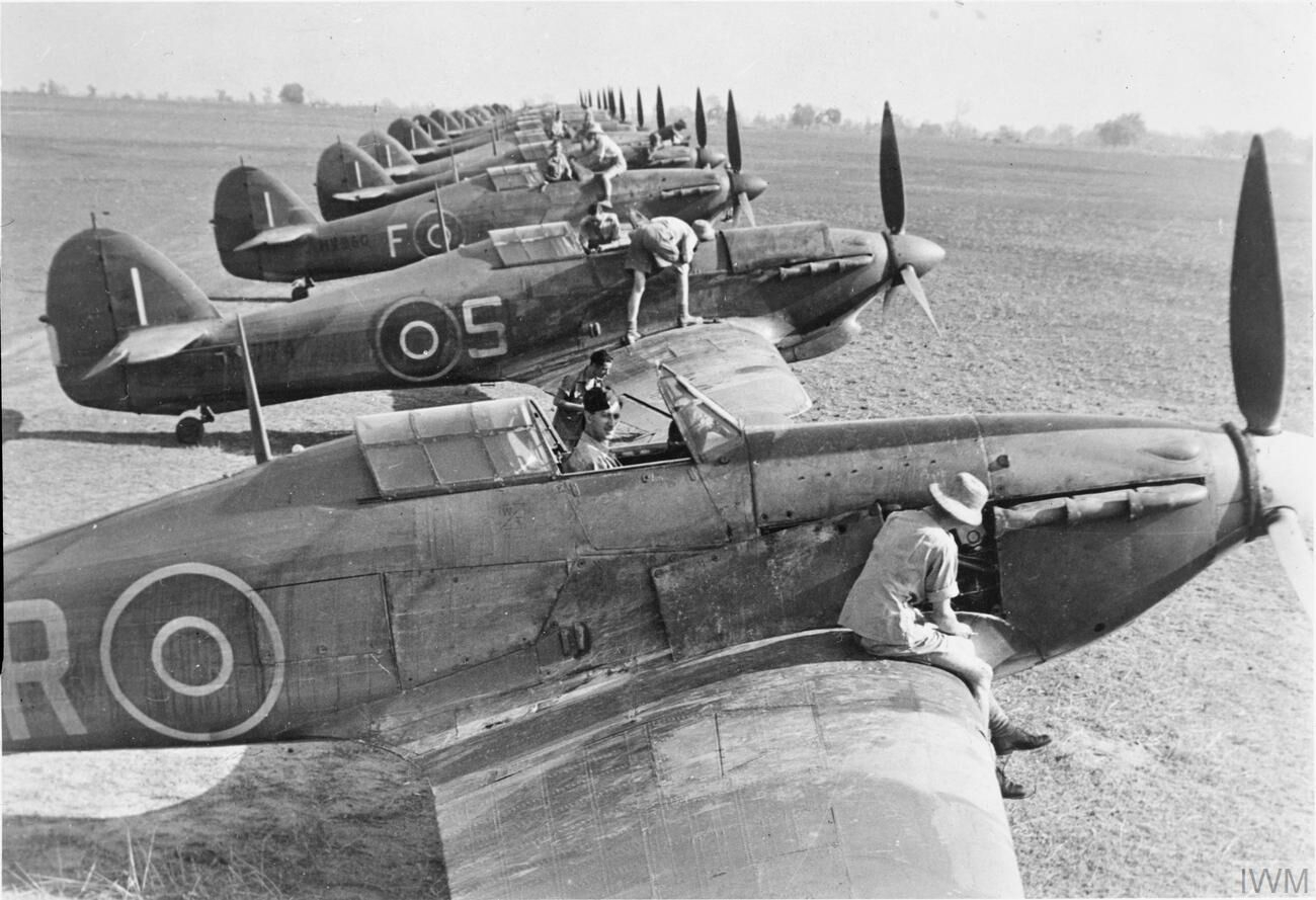 Hawker Hurricane Mark IIBs and IICs of No. 67 Squadron RAF lined up at Chittagong, India (now Bangladesh)